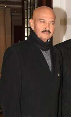 Jeetendra and Rakesh Roshan at a wedding reception